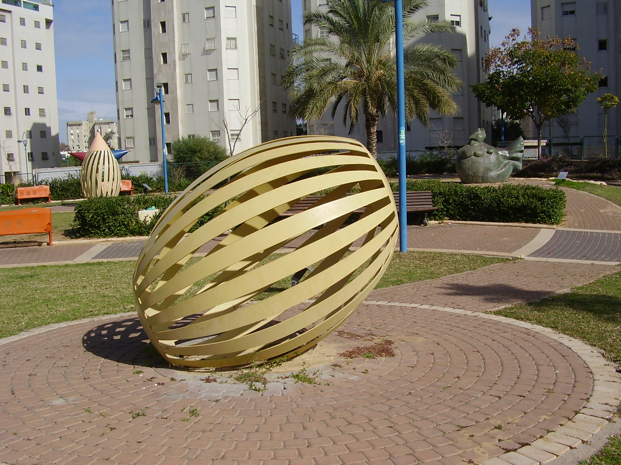 The egg story garden in Holon